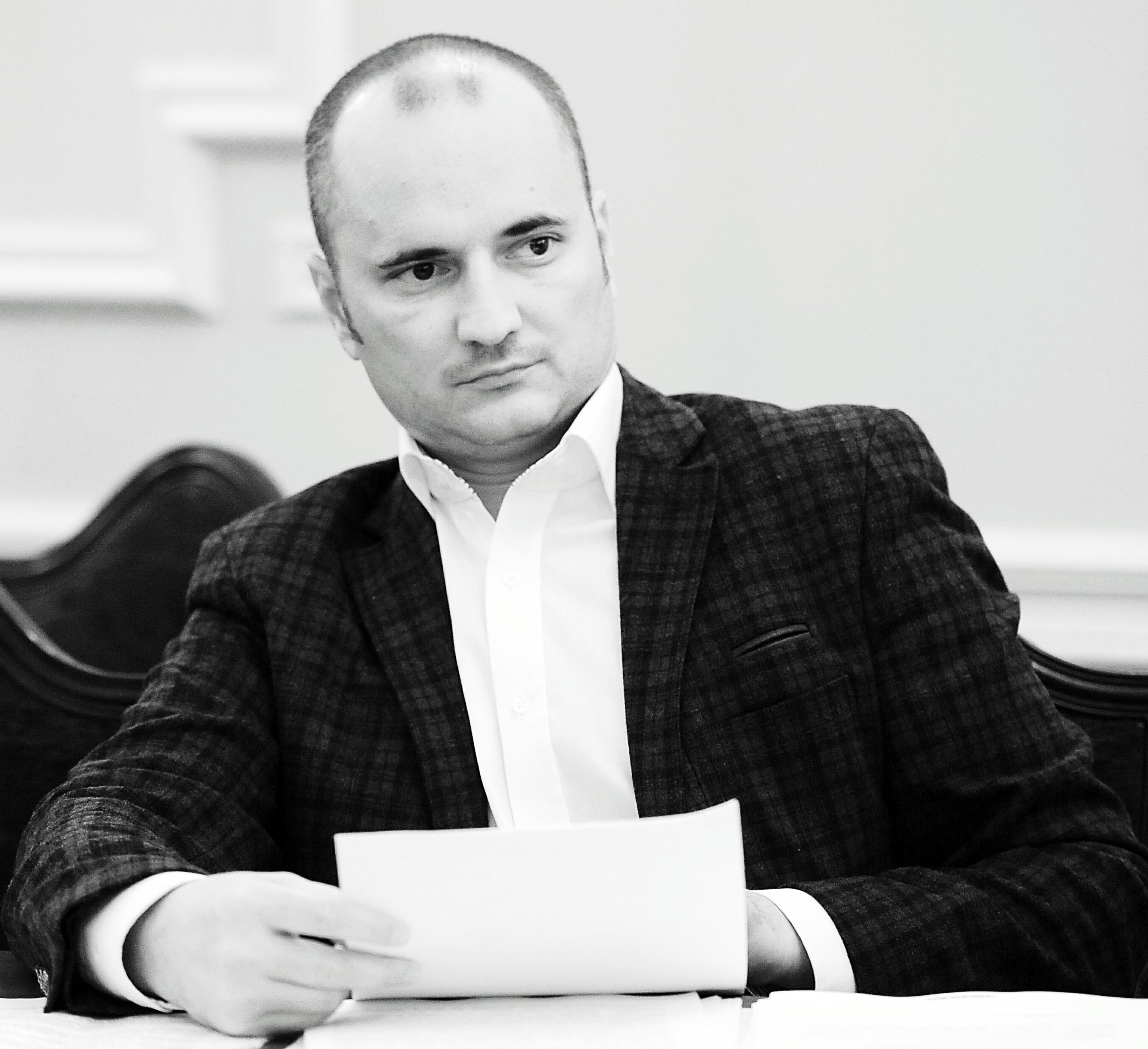 Babiy Yuriy